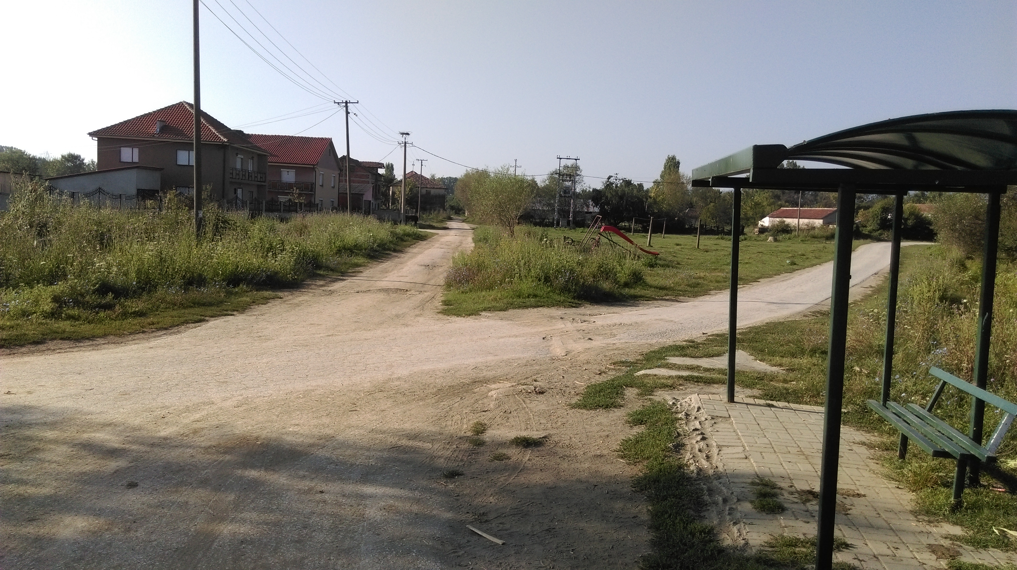 Žabeni village